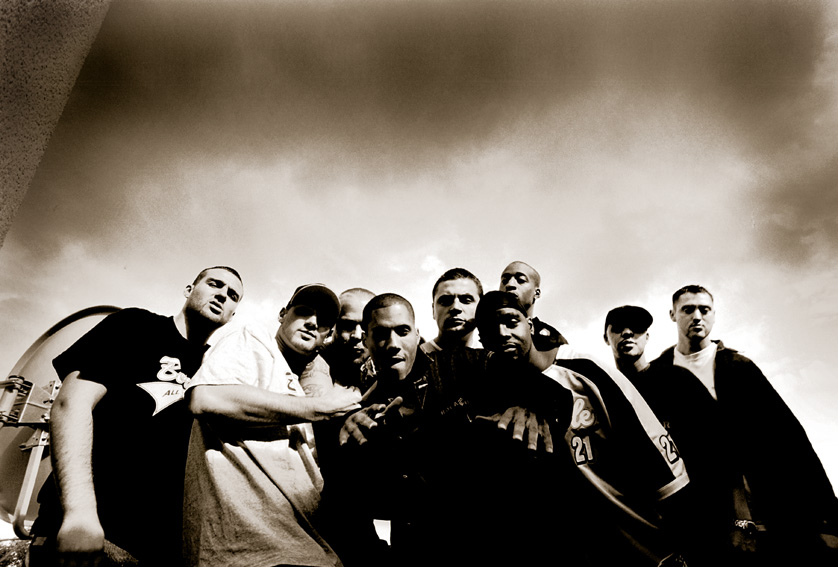 Berlin 2000